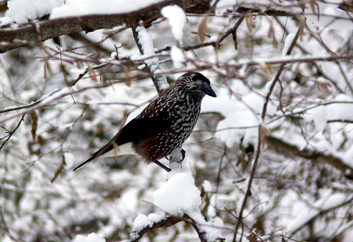 Spotted Nutcracker Nucifraga caryocatactes, Zelenograd, Moskovskaya Oblast, Russia